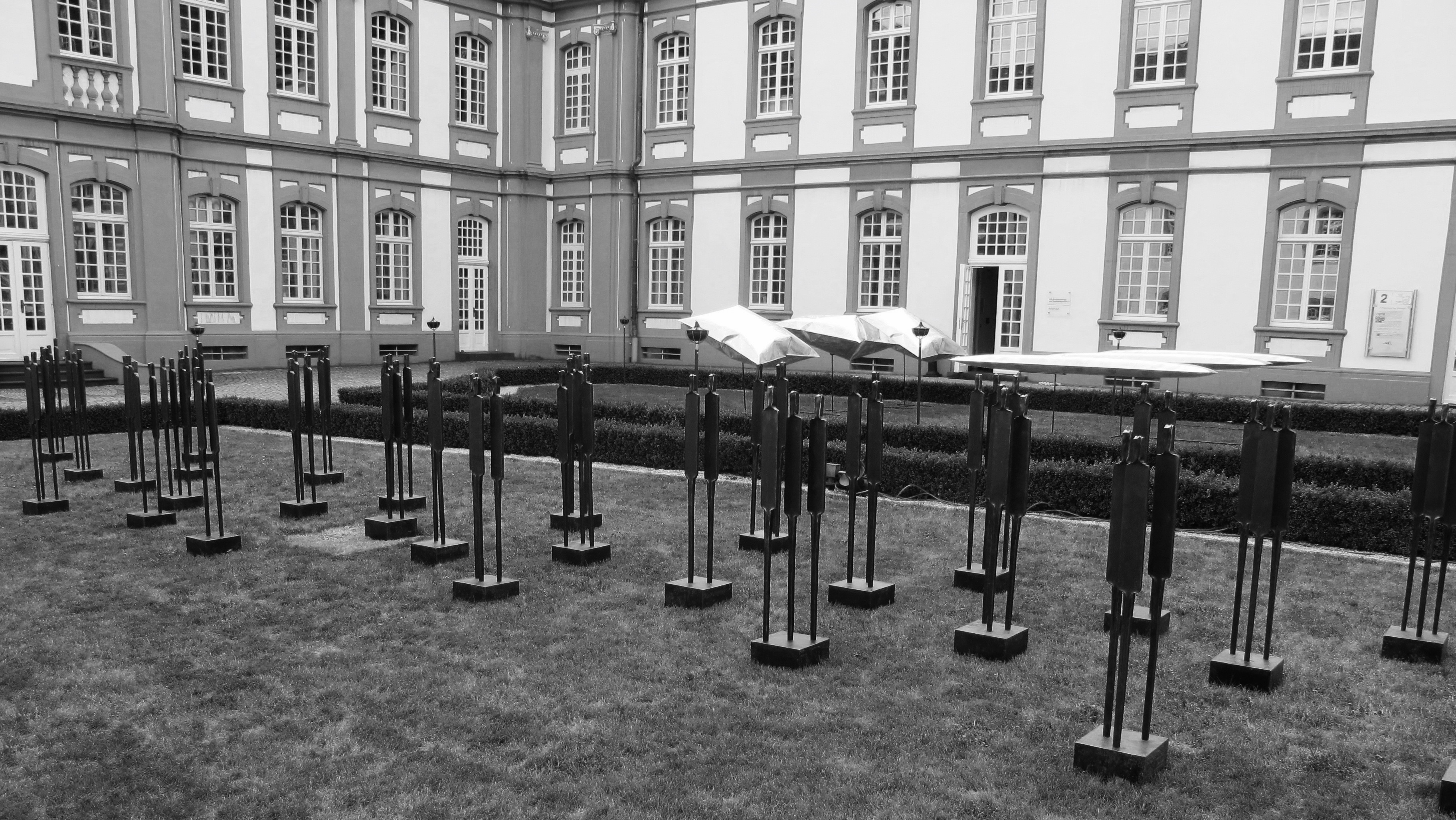 Installation Innehalten, Metal Sculptor Jürgen Heinz, Kunsttage Brauweiler 2011